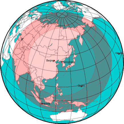 Hwasong-12 (KN-17) IRBM estimated maximum operational range (3700-6000 km) in azimuthal-orthogonal projection centered above Pyongyang